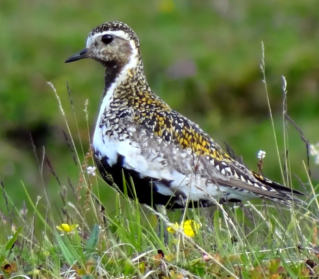 An adult Eurasian Golden Plover in Rohkunborri National Park in the Arctic part of Norway.